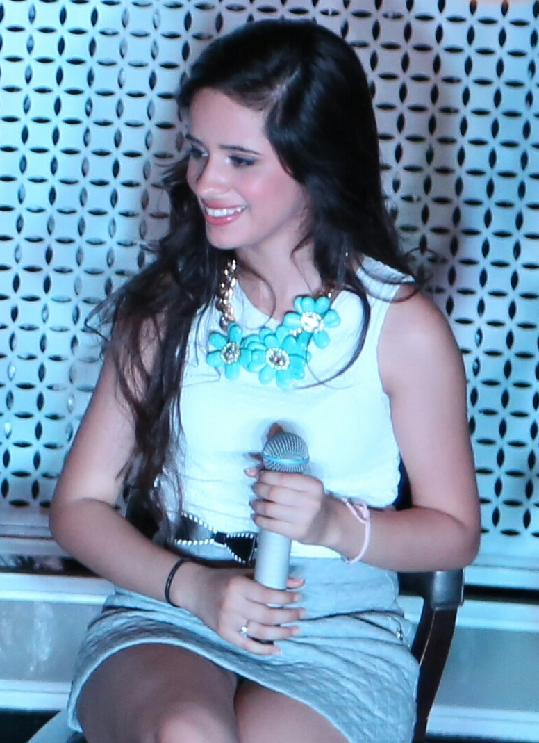 Camila Cabello in 2013